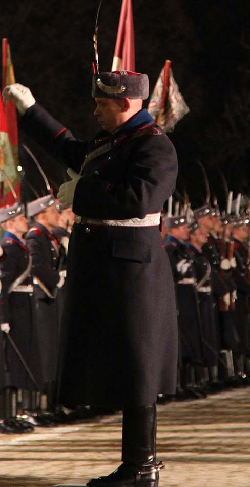 Главният диригент Ради Радев на Гвардейския оркестър, София 03.03.2018 г.